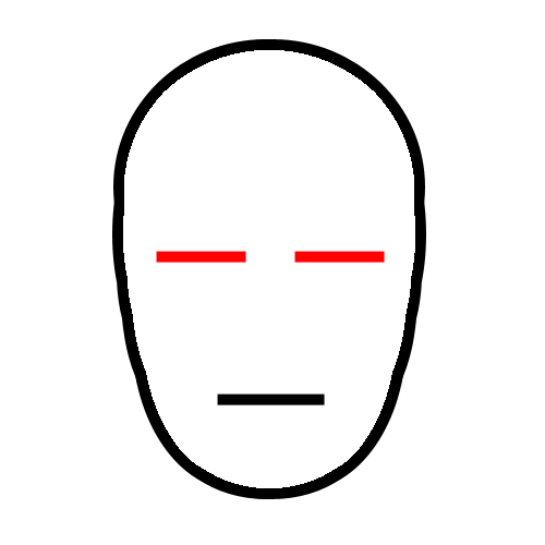 B2 classification image. Partially based on information found in this.